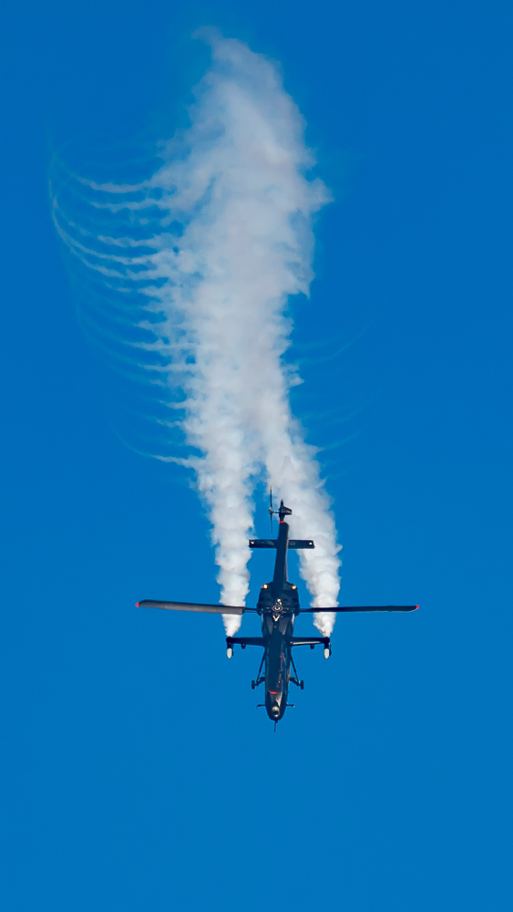 IAF LCH chopping up the air